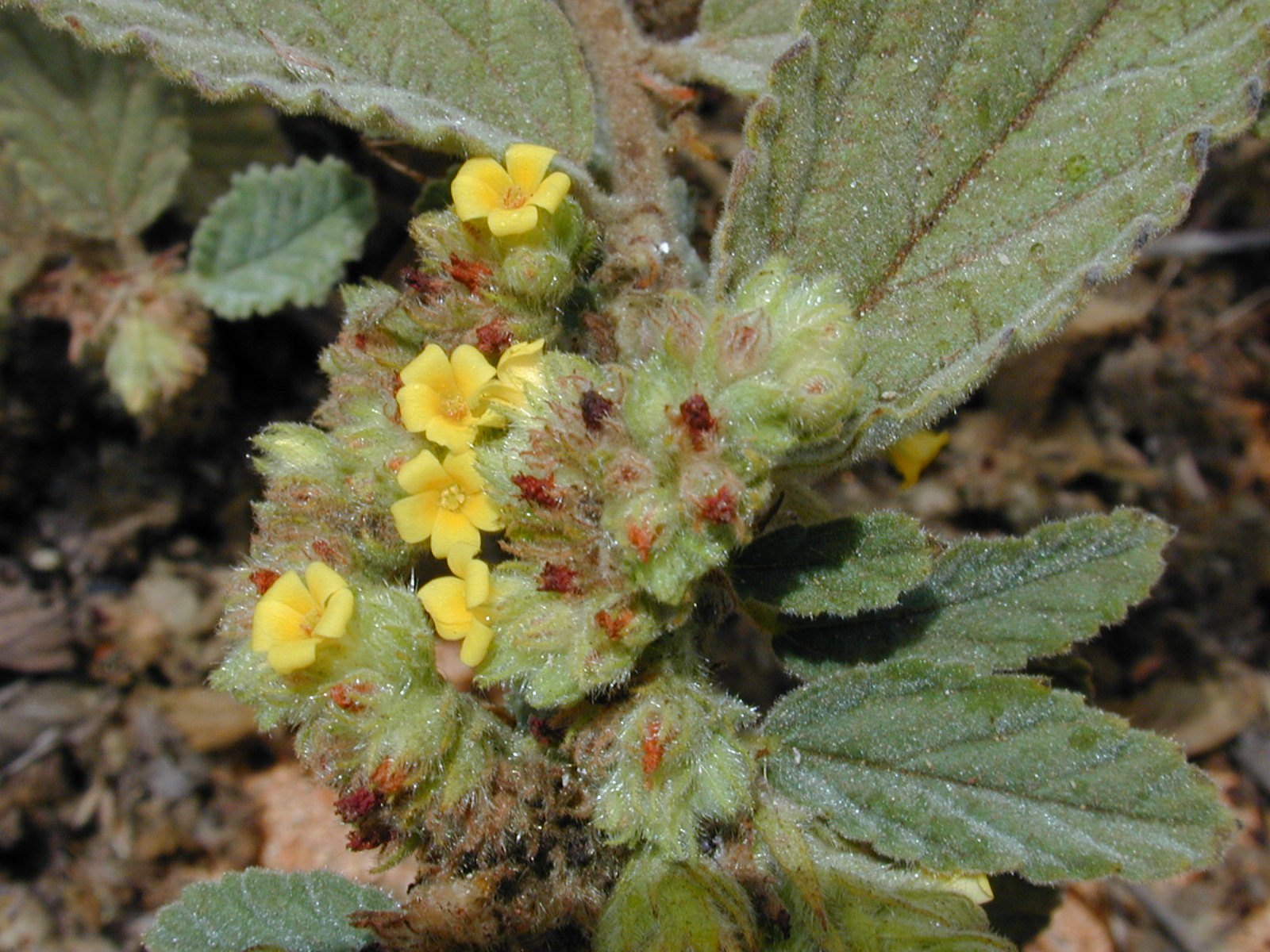 Waltheria indica (flowers). Location: Maui, Kanaha Beach